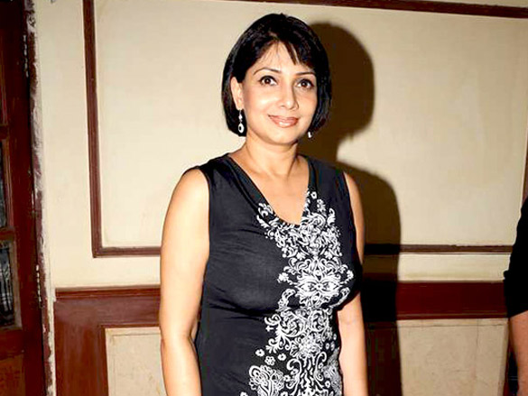 Aswari joshi